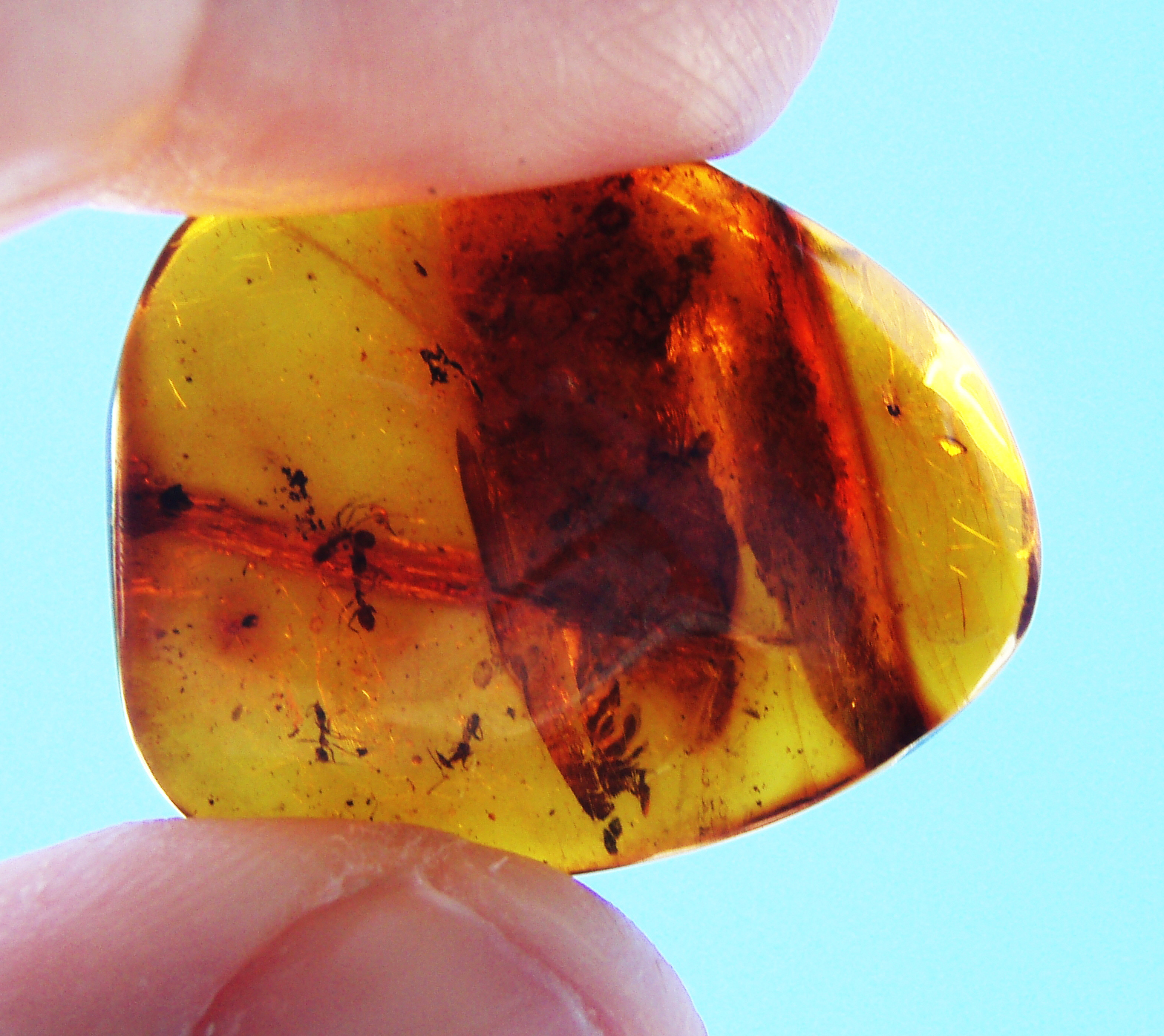 There are few ants in that small piece of Amber